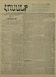 Hossank, 1907 - issue 50